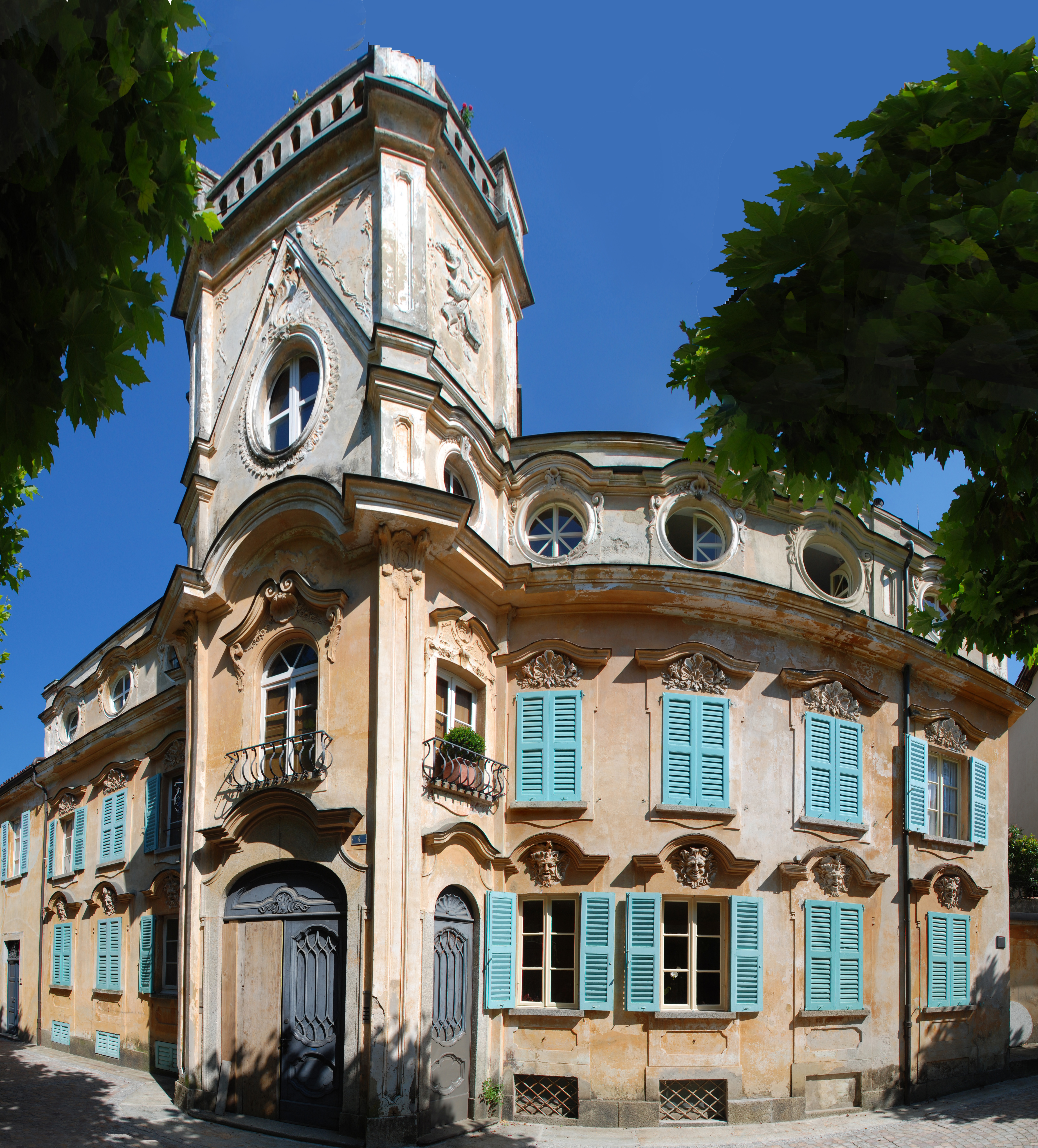 Casa Camuzzi from the street